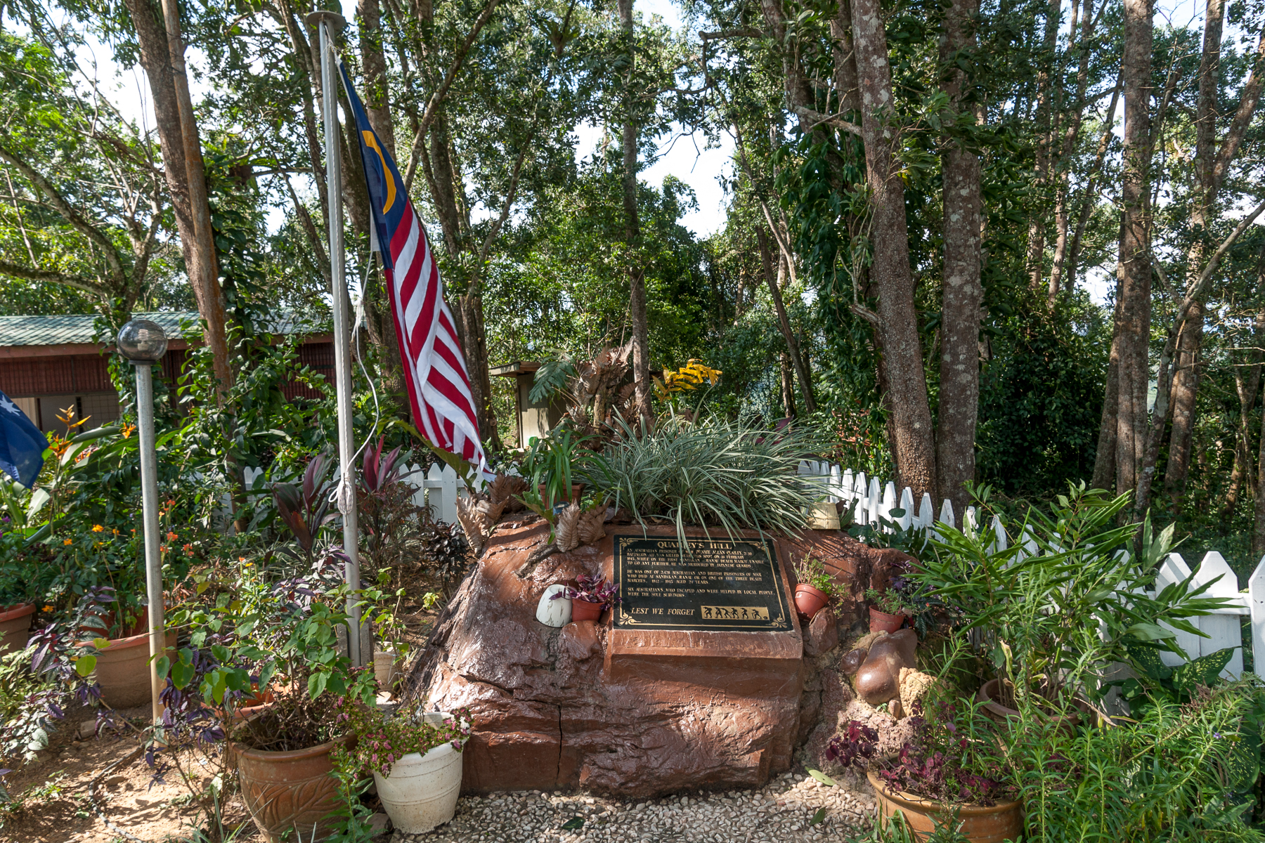 Ranau, Sabah: Quailey's Hill Memorial, Plate at the route A4